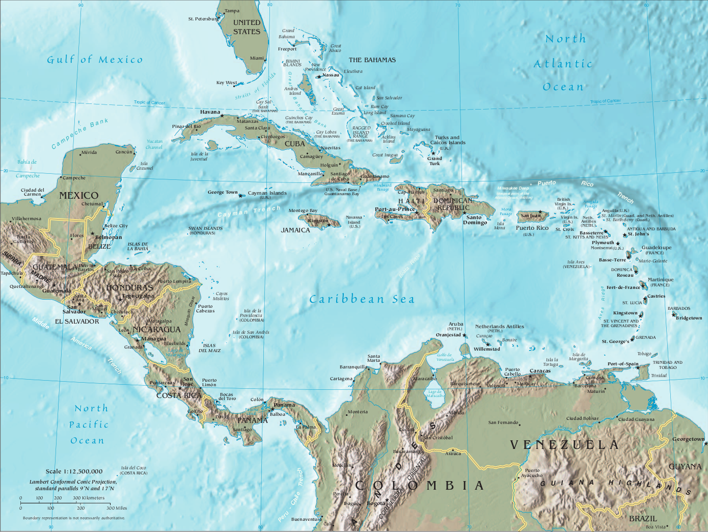 Map of Central America and the Caribbean by the CIA World Factbook